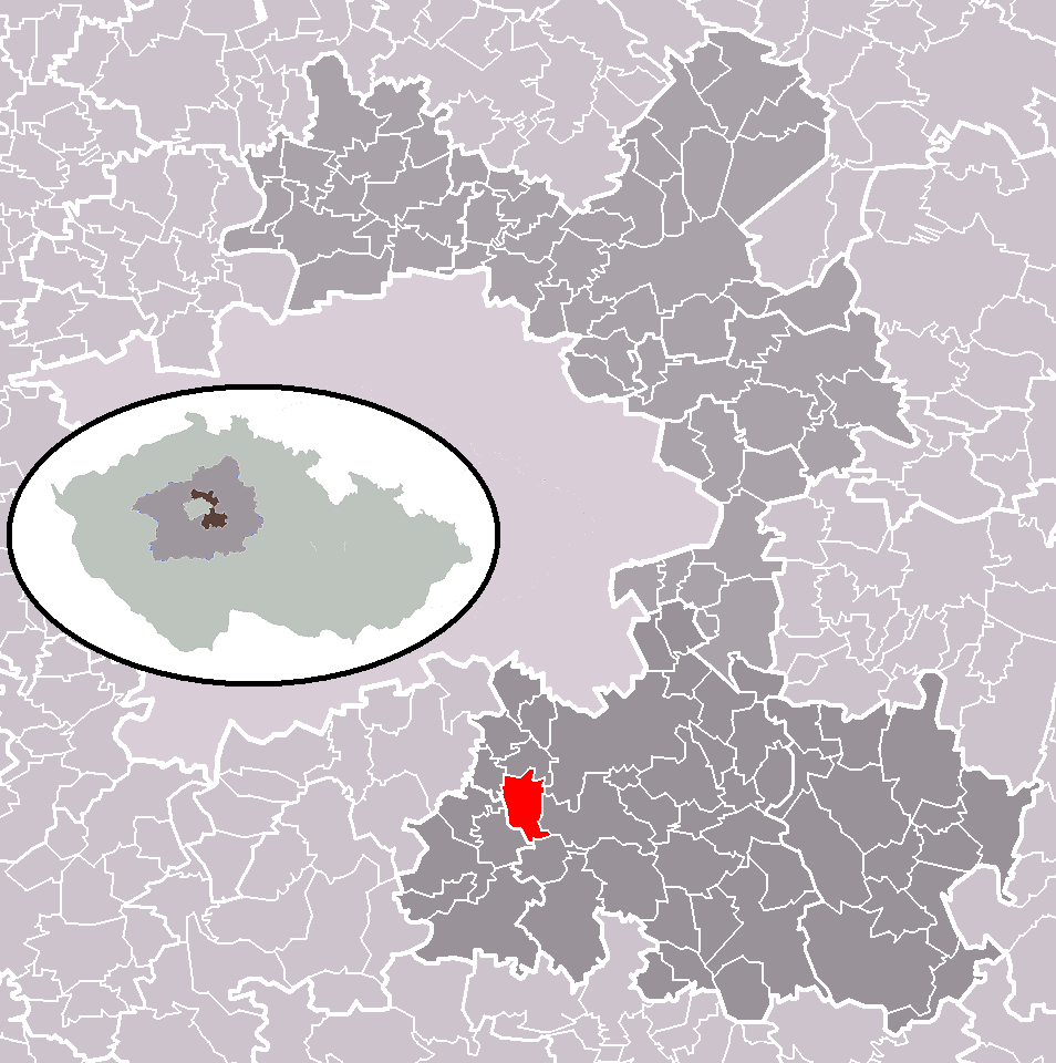 Location of Popovičky municipality within Prague-East District and administrative area of Říčany as a Municipality with Extended Competence.